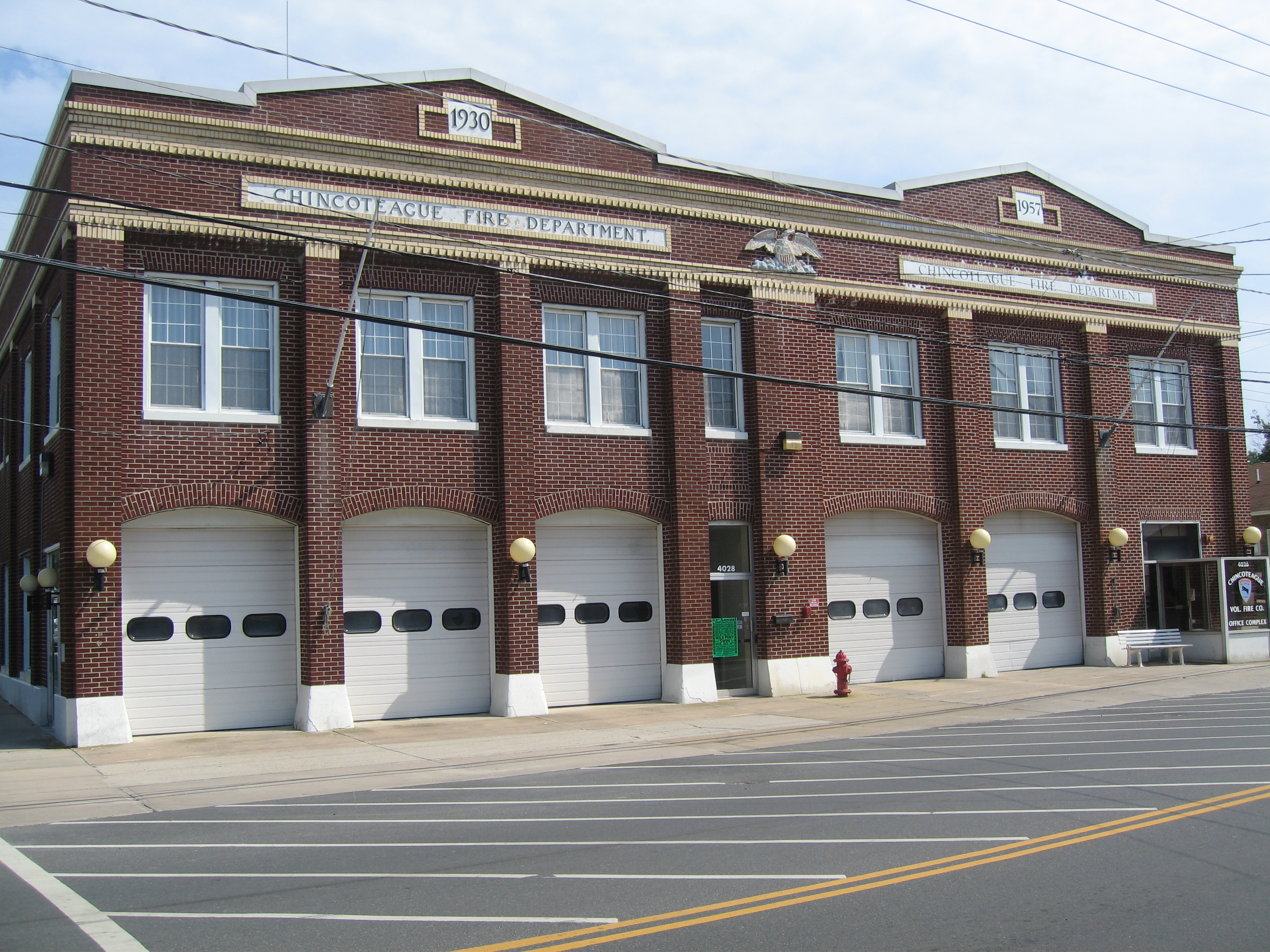 Front view of the Chincoteague Fire Department, 4026/4028 Main Street, Chincoteague Island, Virginia.